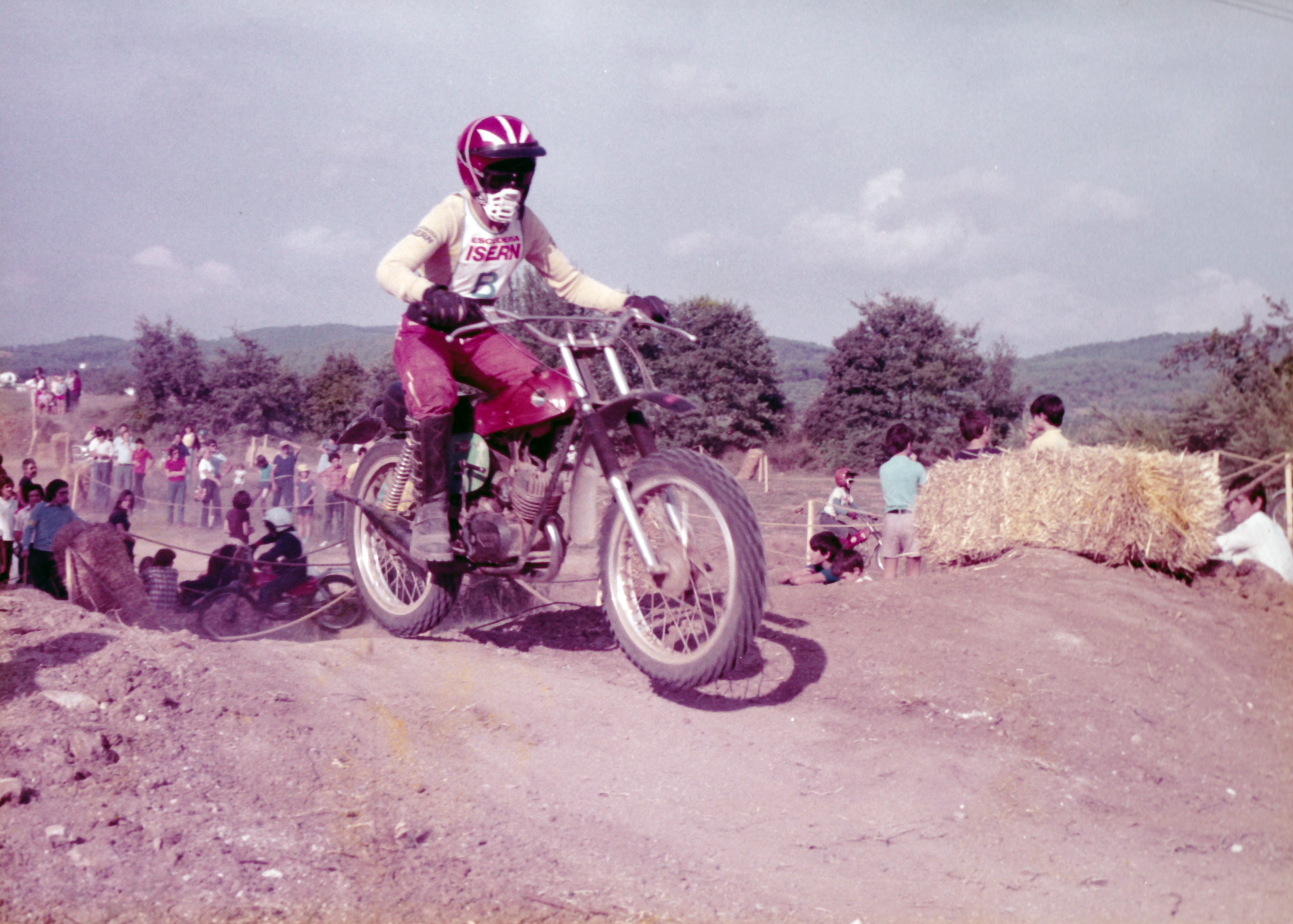 Xavi Borrell, from Barberà del Vallès, on his motocross Derbi in La Roca in 1975